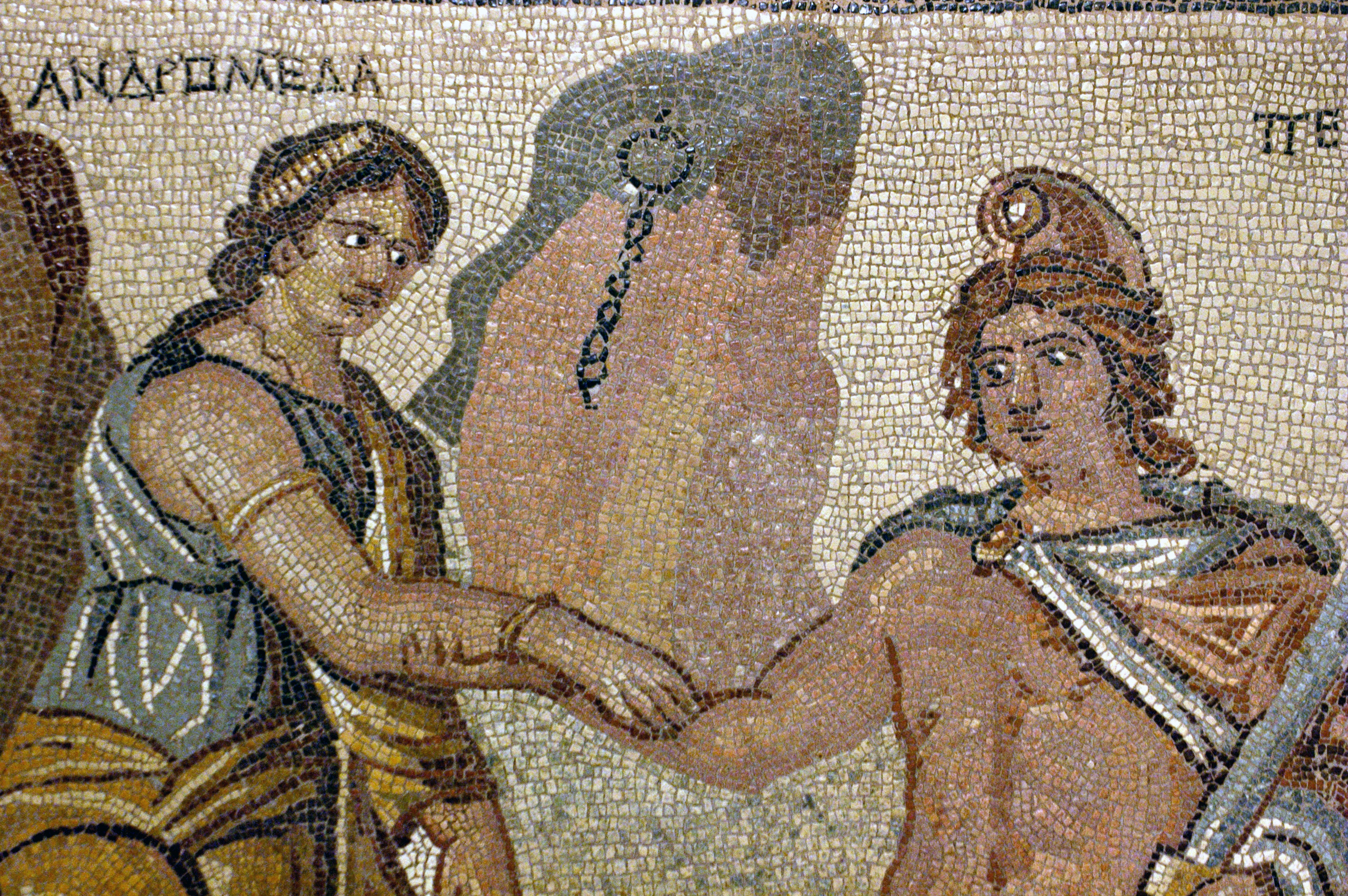 From Enc. Brit.: Perseus was the son of Zeus and Danaë, the daughter of Acrisius of Argos. As an infant he was cast into the sea in a chest with his mother by Acrisius, to whom it had been prophesied that he would be killed by his grandson. A [..] deed attributed to Perseus was his rescue of the Ethiopian princess Andromeda when he was on his way home with Medusa's head. Andromeda's mother, Cassiopeia, had claimed to be more beautiful than the sea nymphs, or Nereid ; so Poseidon had punished Ethiopia by flooding it and plaguing it with a sea monster. An oracle informed Andromeda's father, King Cepheus, that the ills would cease if he exposed Andromeda to the monster, which he did. Perseus, passing by, saw the princess and fell in love with her. He turned the sea monster to stone by showing it Medusa's head and afterward married Andromeda.